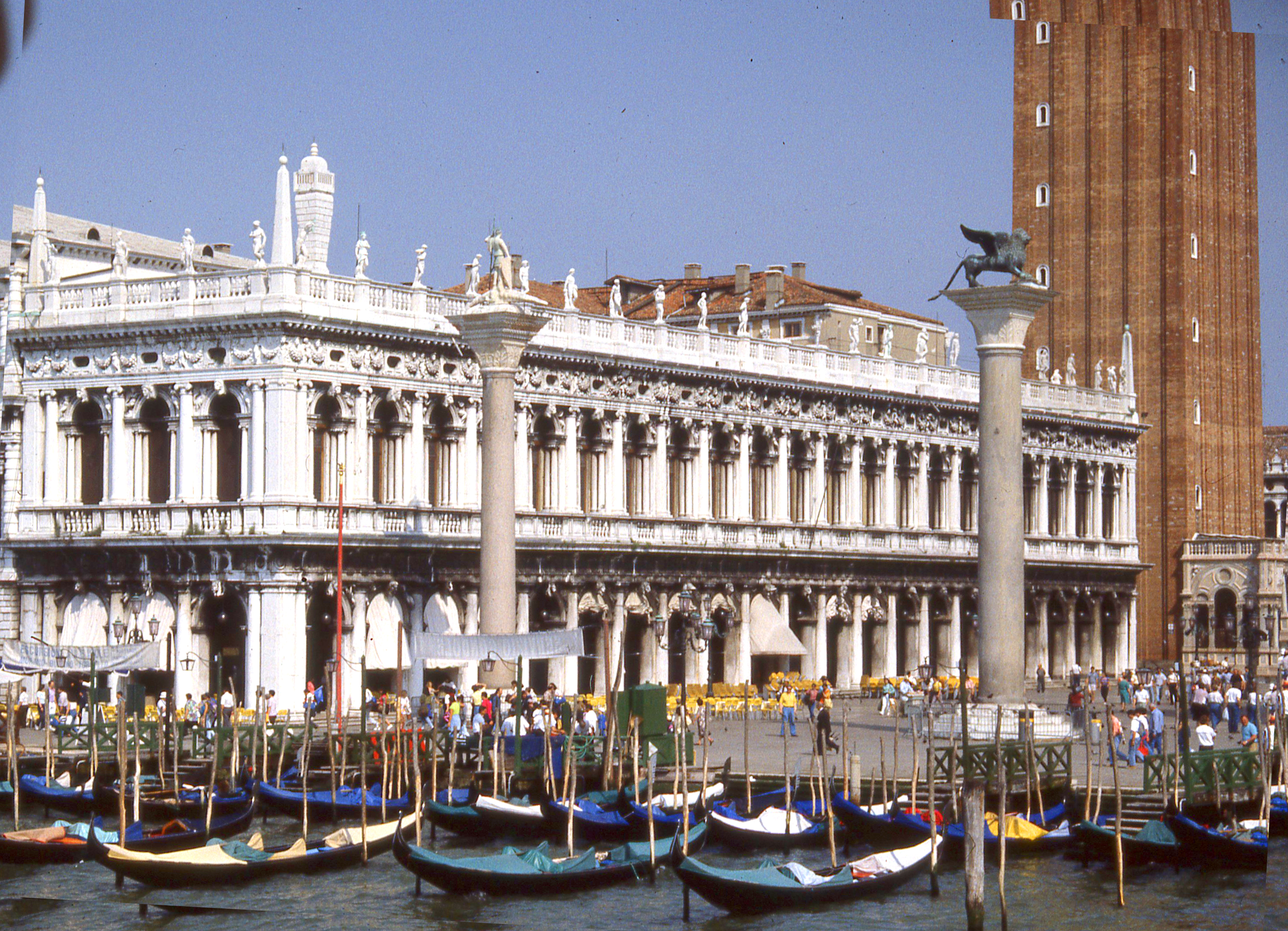 View from the lagoon, Venice, of Sansovino's Libreria which contains the Biblioteca Marciana, and the two columns in the Piazzetta